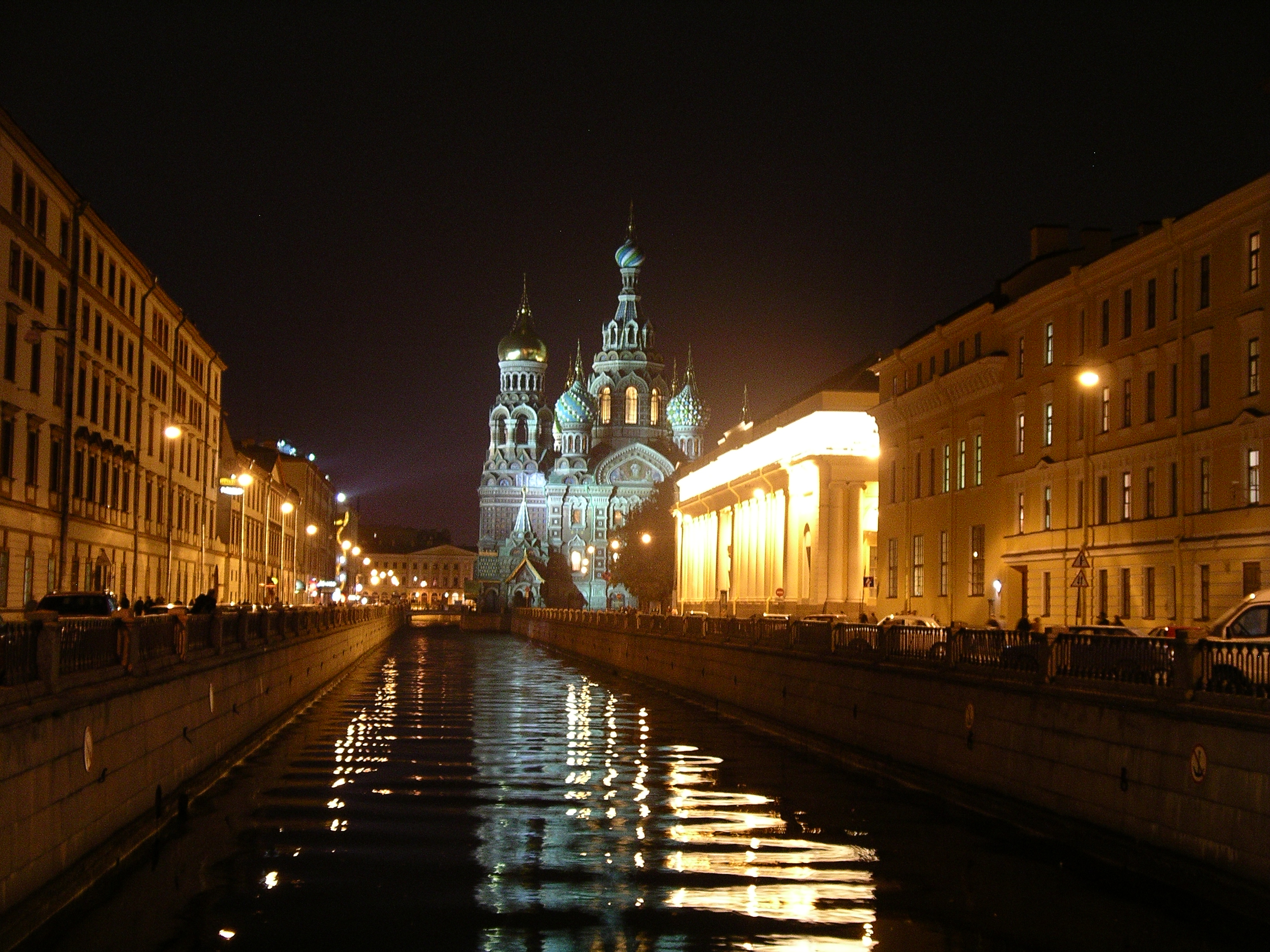 Church of the Saviour on the Blood at Night, St. Petersburg.